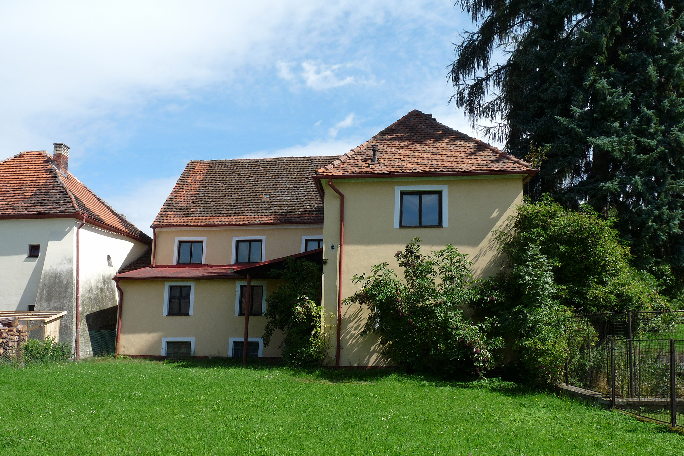 Former synagogue in the village of Tučapy, Tábor District, Czech Republic, rebuilt to a gym. Kosher slaughter used to take place in the garden at the front. The low annexe and the part on the right were made for the use of the building as a gym.